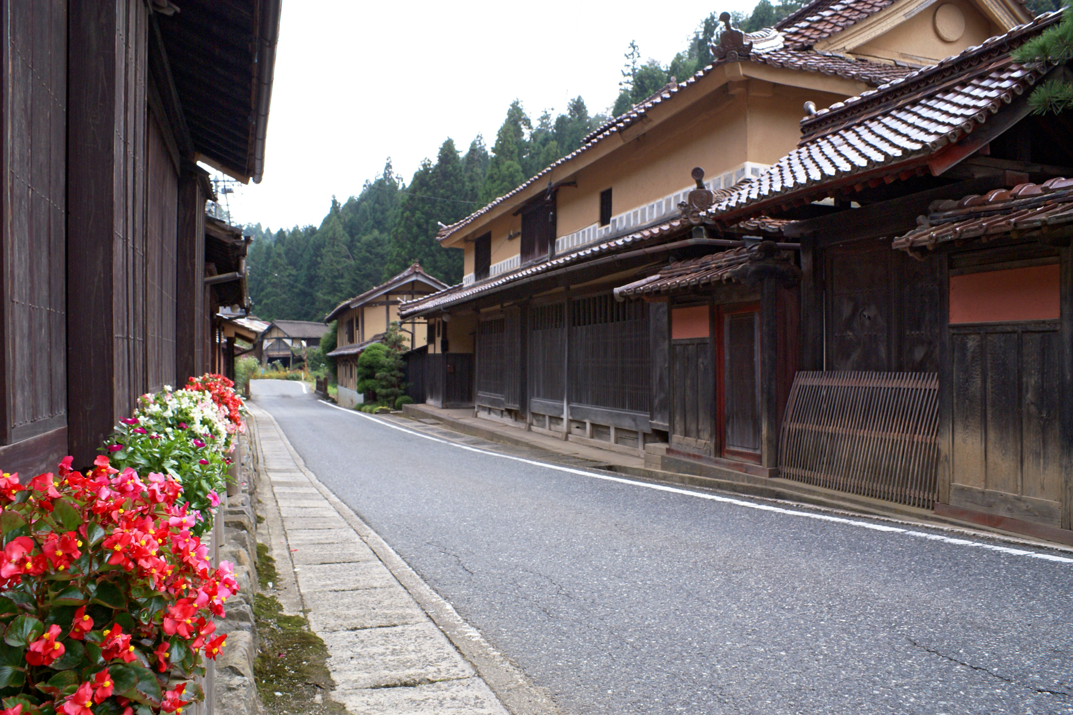 Shimotani, Fukiya in Takahashi, Okayama prefecture, Japan.